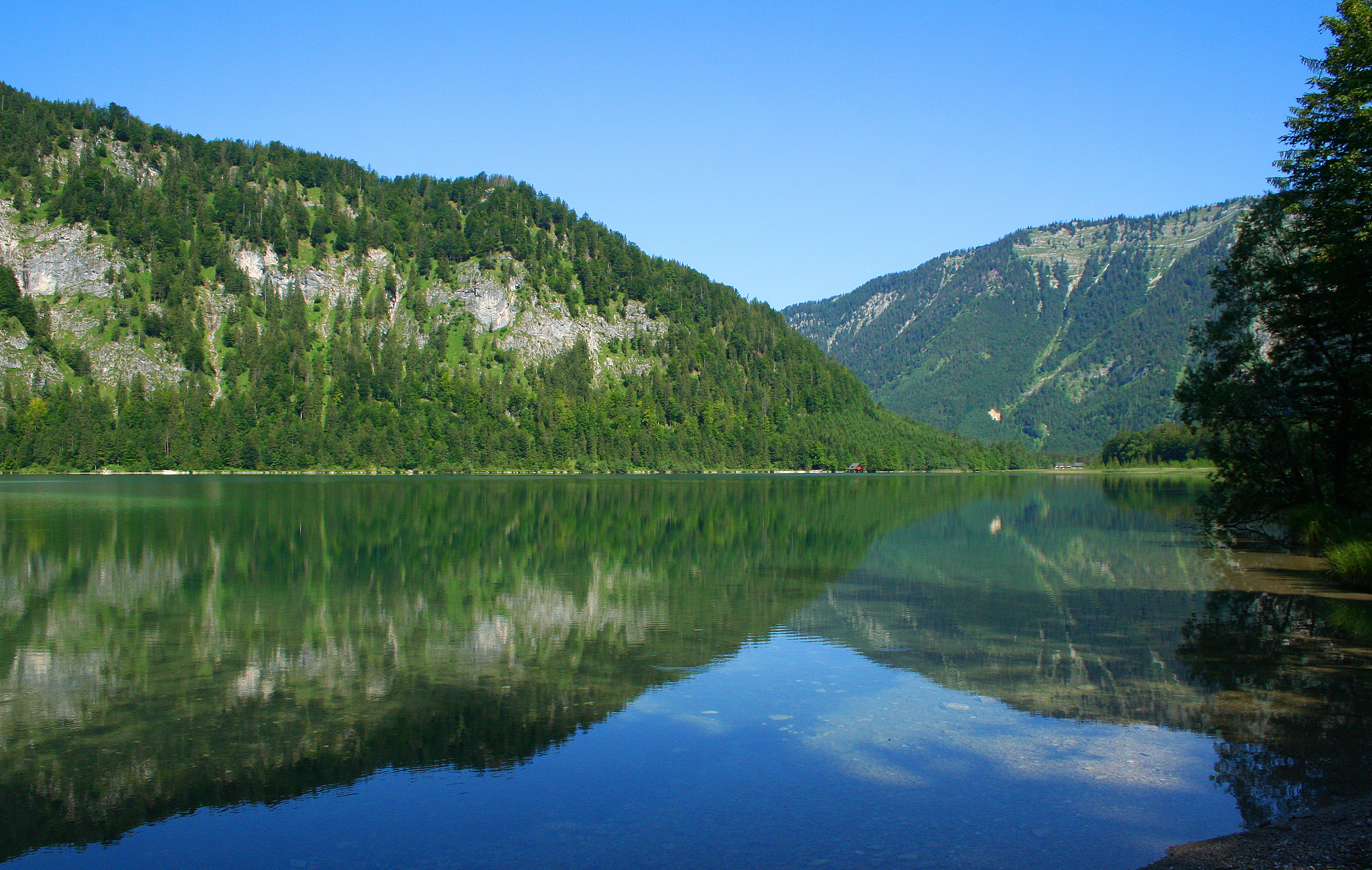 View of the Offensee from the logging road.